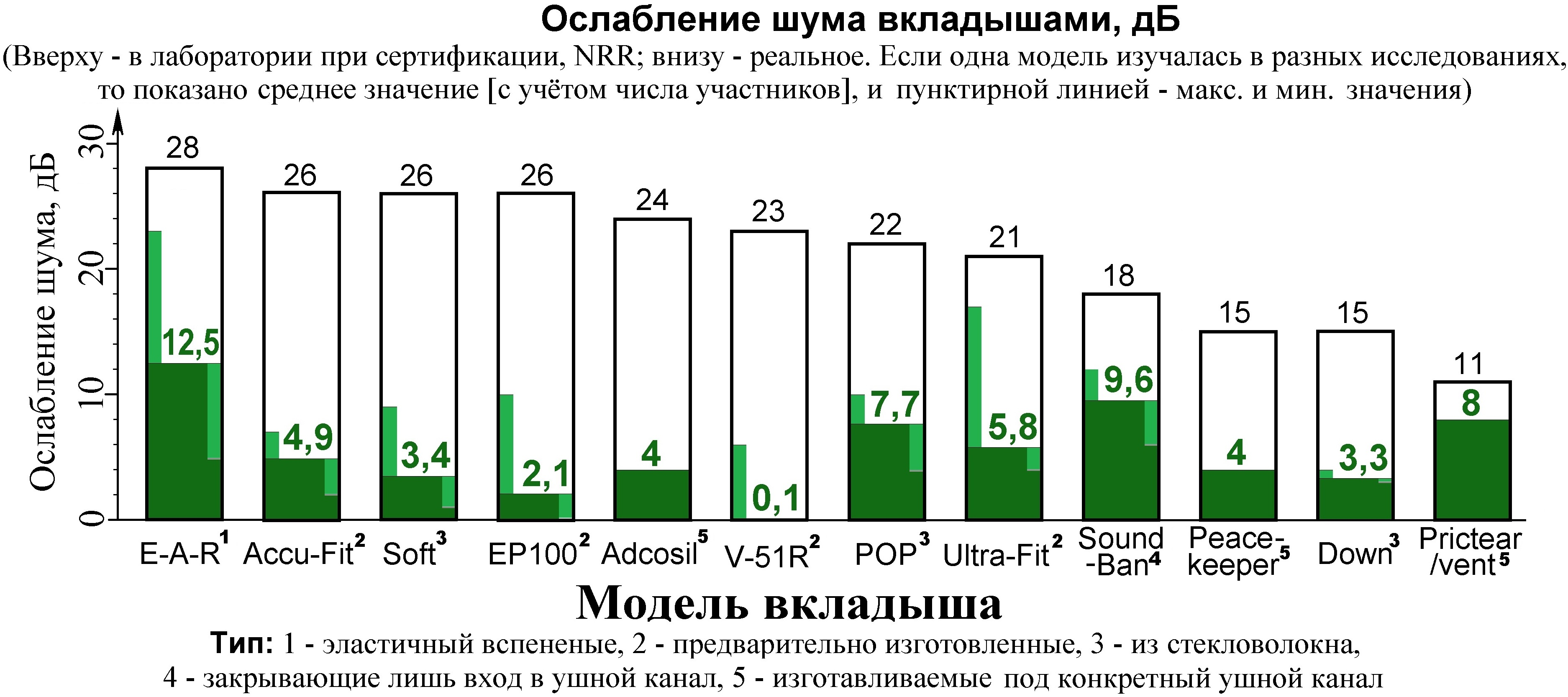 The difference between the real and laboratory effectiveness of personal protective equipment (PPE) of hearing from the noise - ear plugs